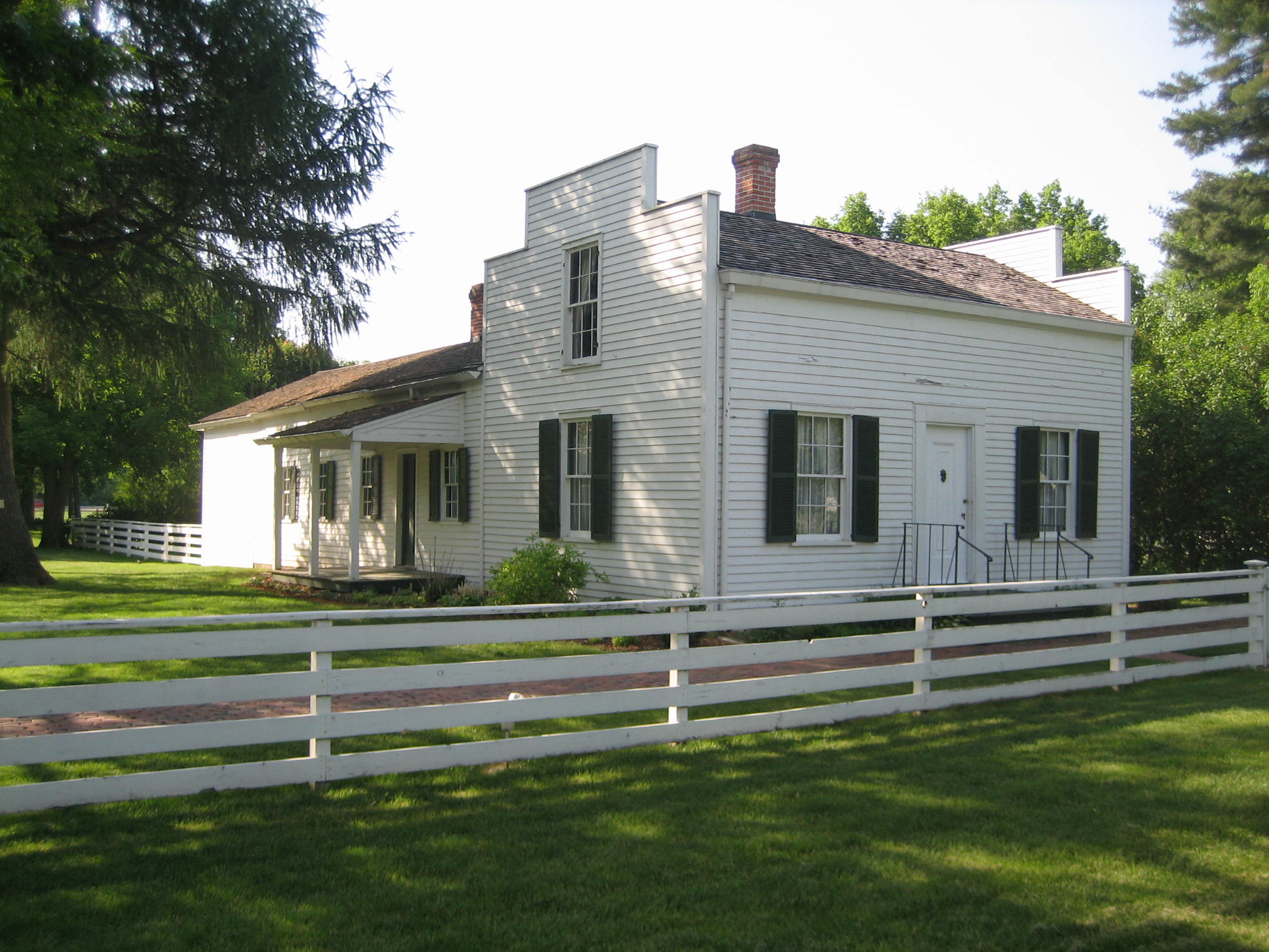 John Deere House, John Deere Historic Site (John Deere House & Shop) - Grand Detour, Illinois, United States. U.S. National Register of Historic Places, U.S. National Historic Landmark.